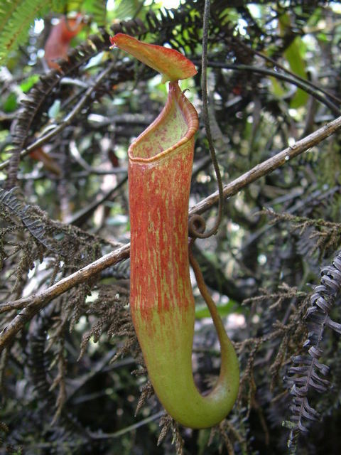 Nepenthes maxima near Tembagapura, Western New Guinea (~2300m asl)